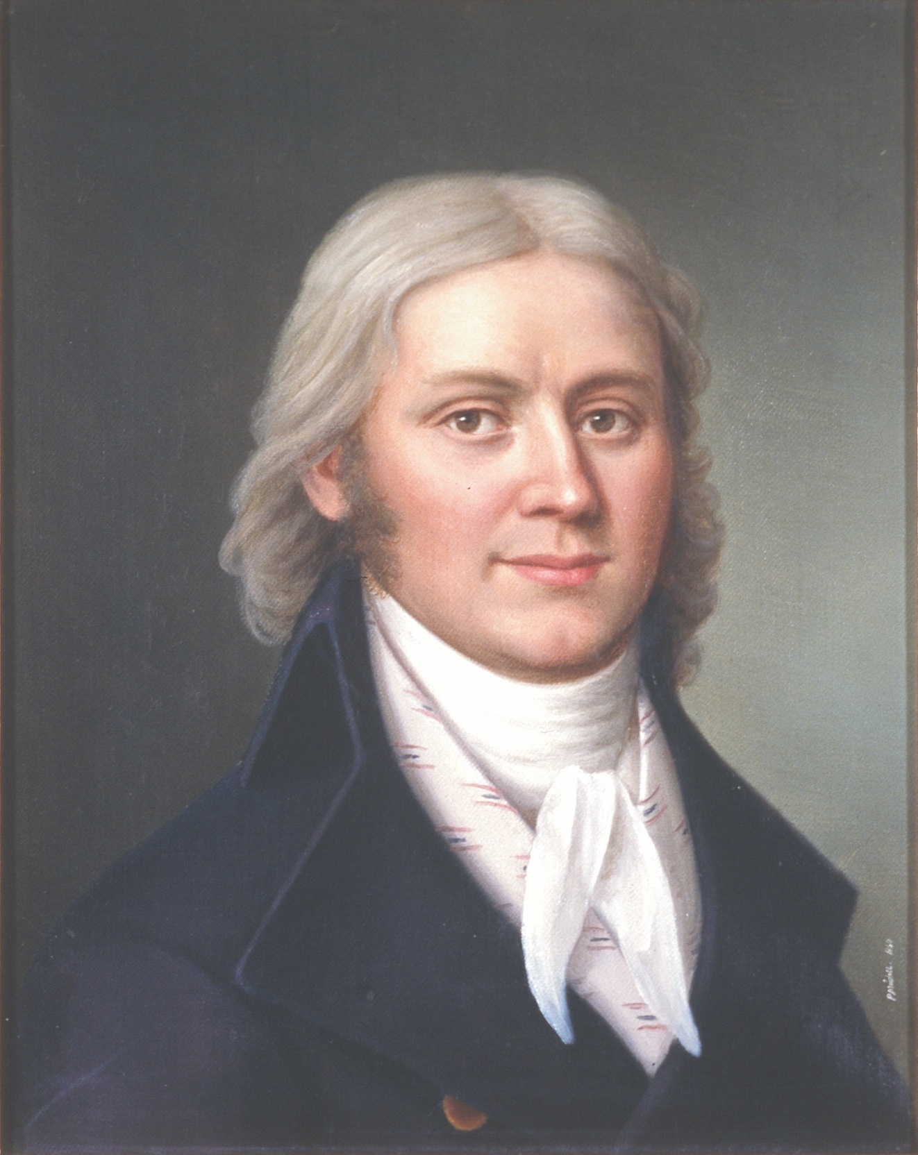 Carl Adolph Dahl, member of the Constitution essembly of Norway in 1814. Painting from 1860; copy after unknown original .